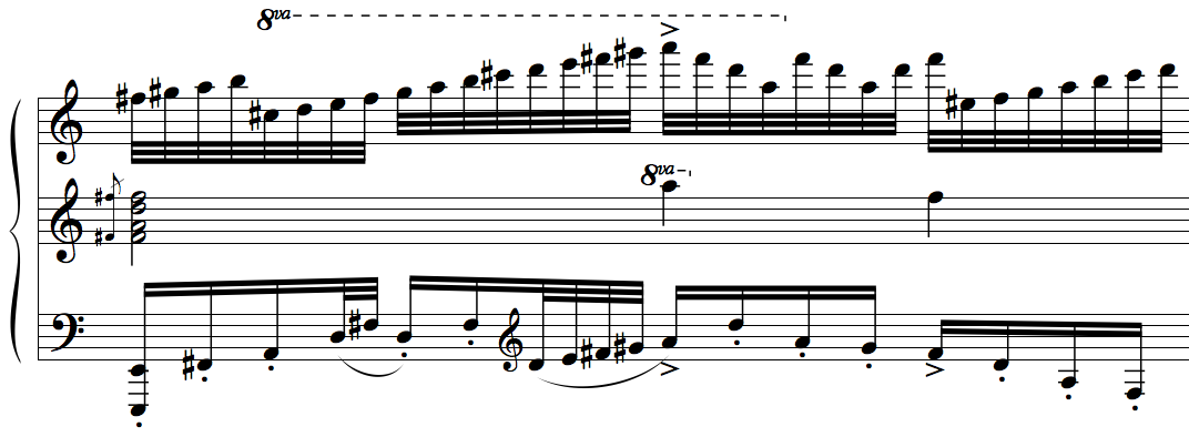 Piano Concerto No. 2 by Sergei Prokofiev, First movement cadenza